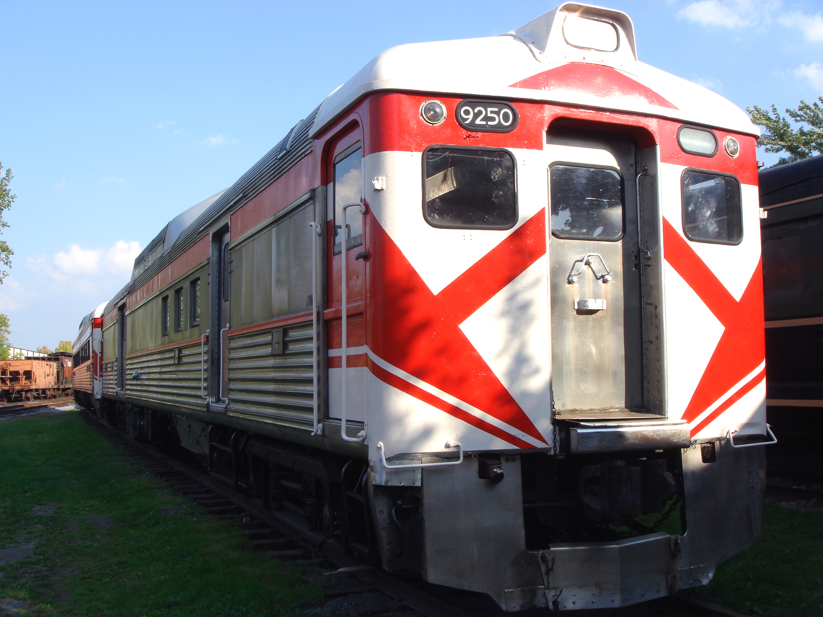 A Canadian Pacific RDC-4 at Exporail.